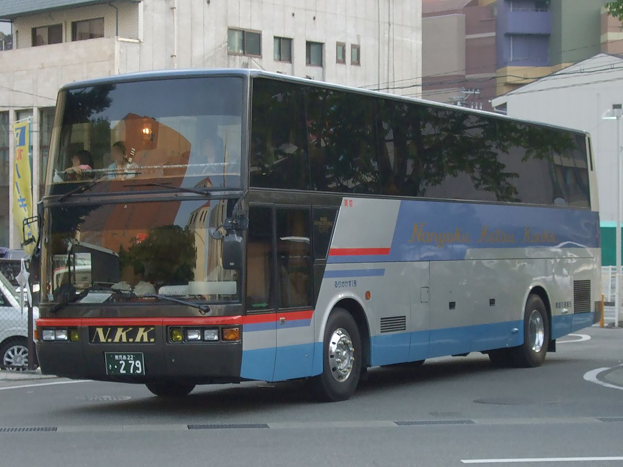 Company:Nangoku Kotsu Kanko Usage:tour bus Car license:鹿児島22 き・279 Chassis manufacturer:Isuzu Motors Coachbuilder:IK Coach Location:in Fukuoka City, Fukuoka, Japan.